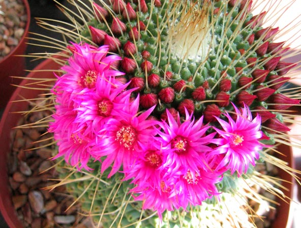 A flowering cactus at Tohono Chul Park in Tucson, Ariz.Cactus in Bloom